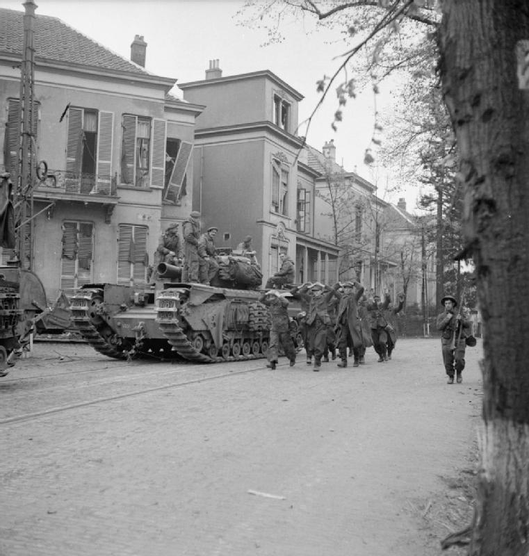 The British Army in North-west Europe 1944-45 German POWs are marched back past a Churchill AVRE during fighting in Arnhem, 14 April 1945.